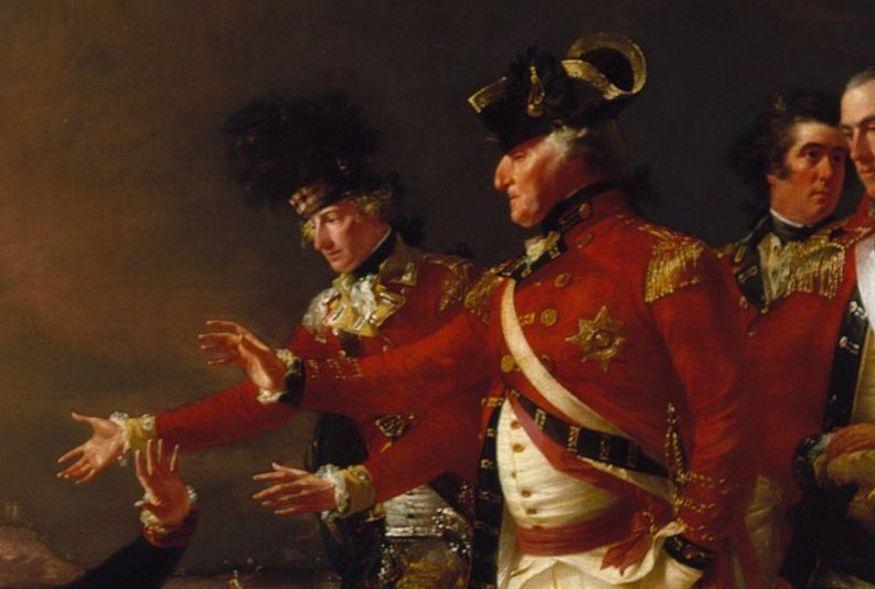 Detail of The Sortie Made by the Garrison of Gibraltar, oil on canvas